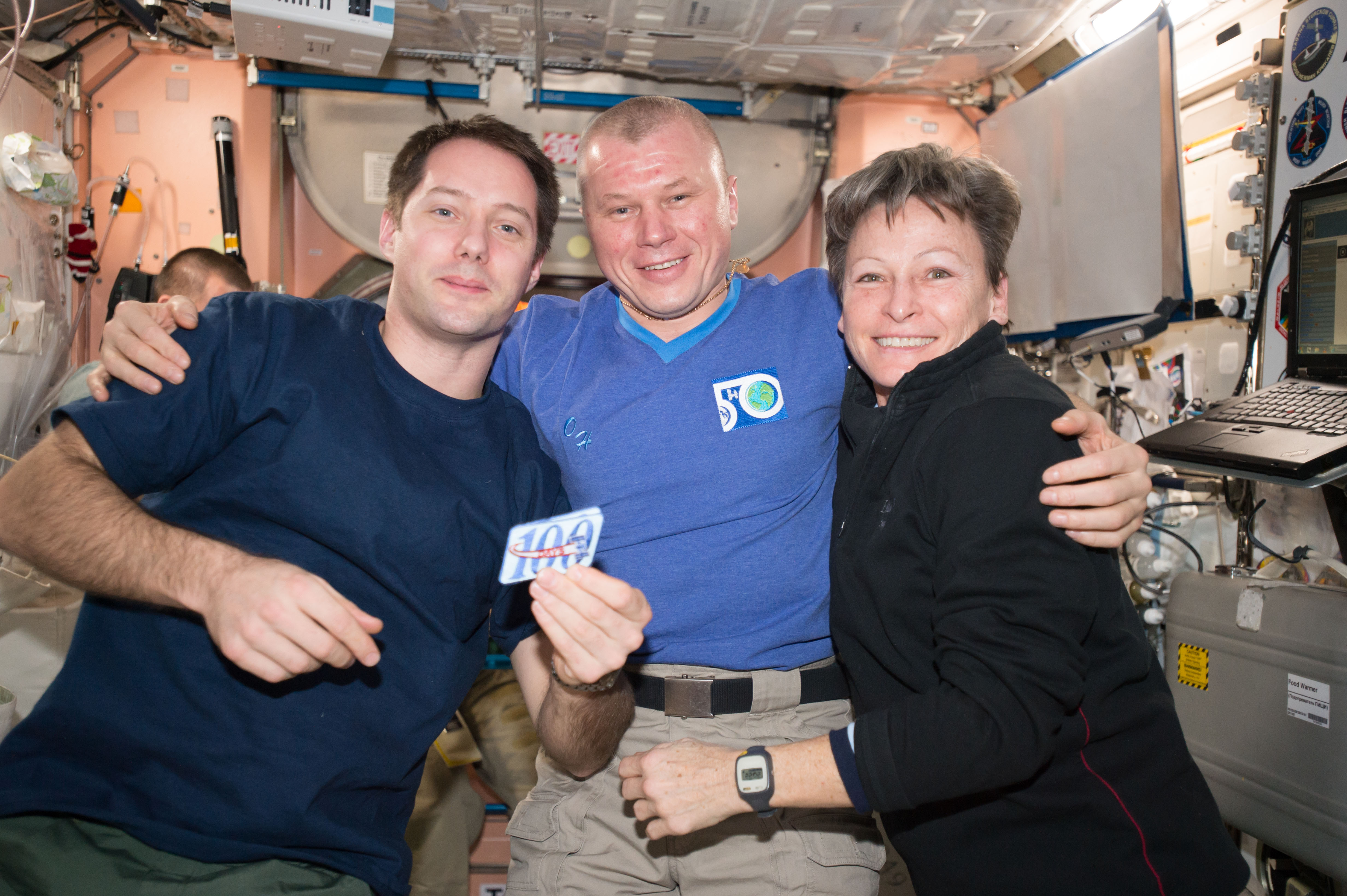 Astronauts and cosmonaut aboard the International Space Station celebrate 100 days in space with a traditional flight patch. Expedition 50 Flight Engineers Thomas Pesquet of ESA (European Space Agency (left), Oleg Novitskiy of Roscosmos (middle) and Peggy Whitson of NASA (right) launched to the station Nov. 17, 2016.